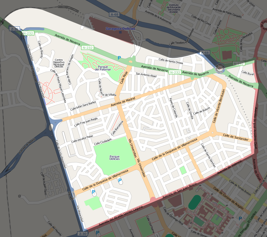 This map may be incomplete, and may contain errors. Don't rely solely on it for navigation.